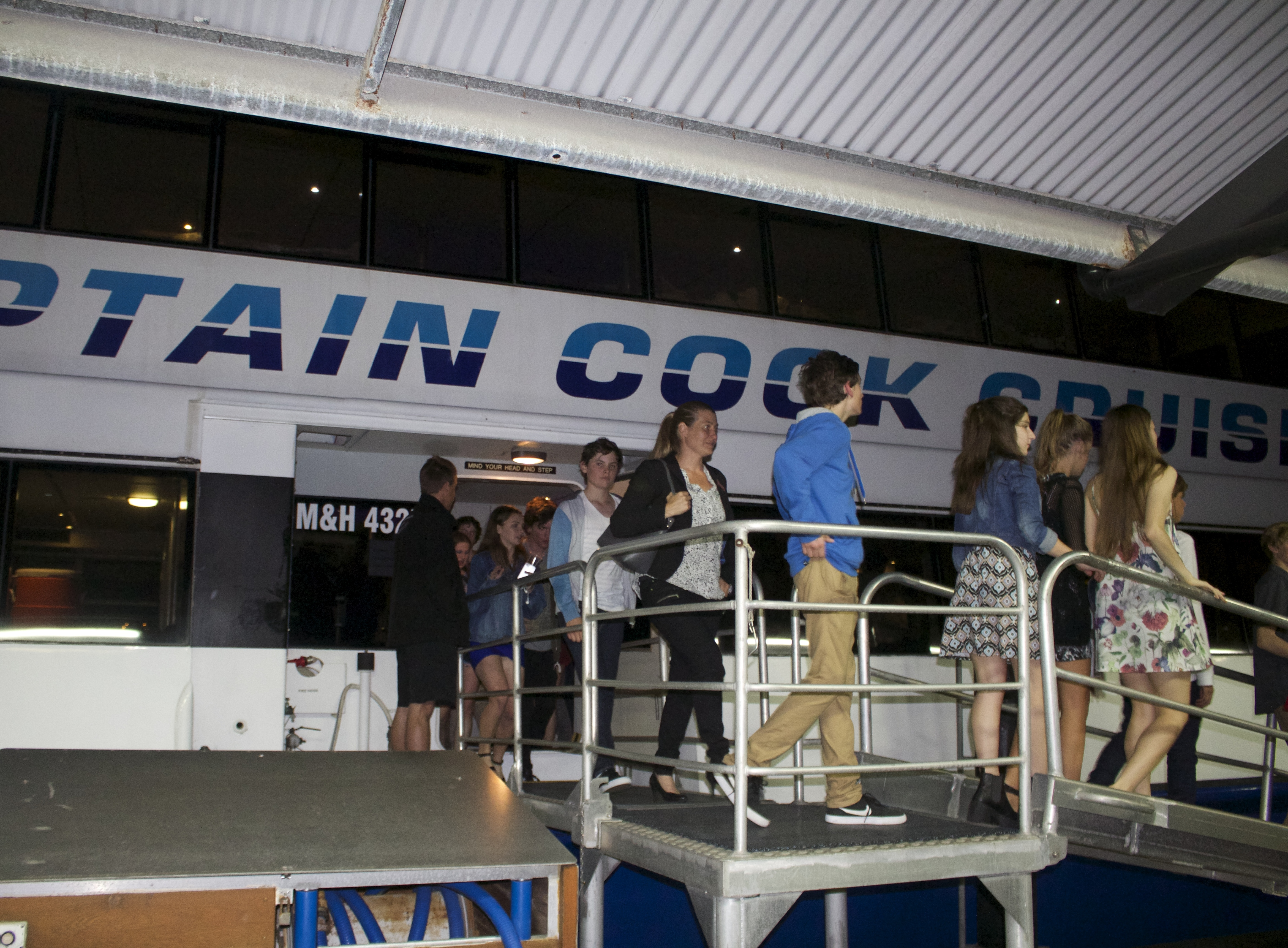 Passengers disembarking from Captain River Cruises after a party held in the cruise.